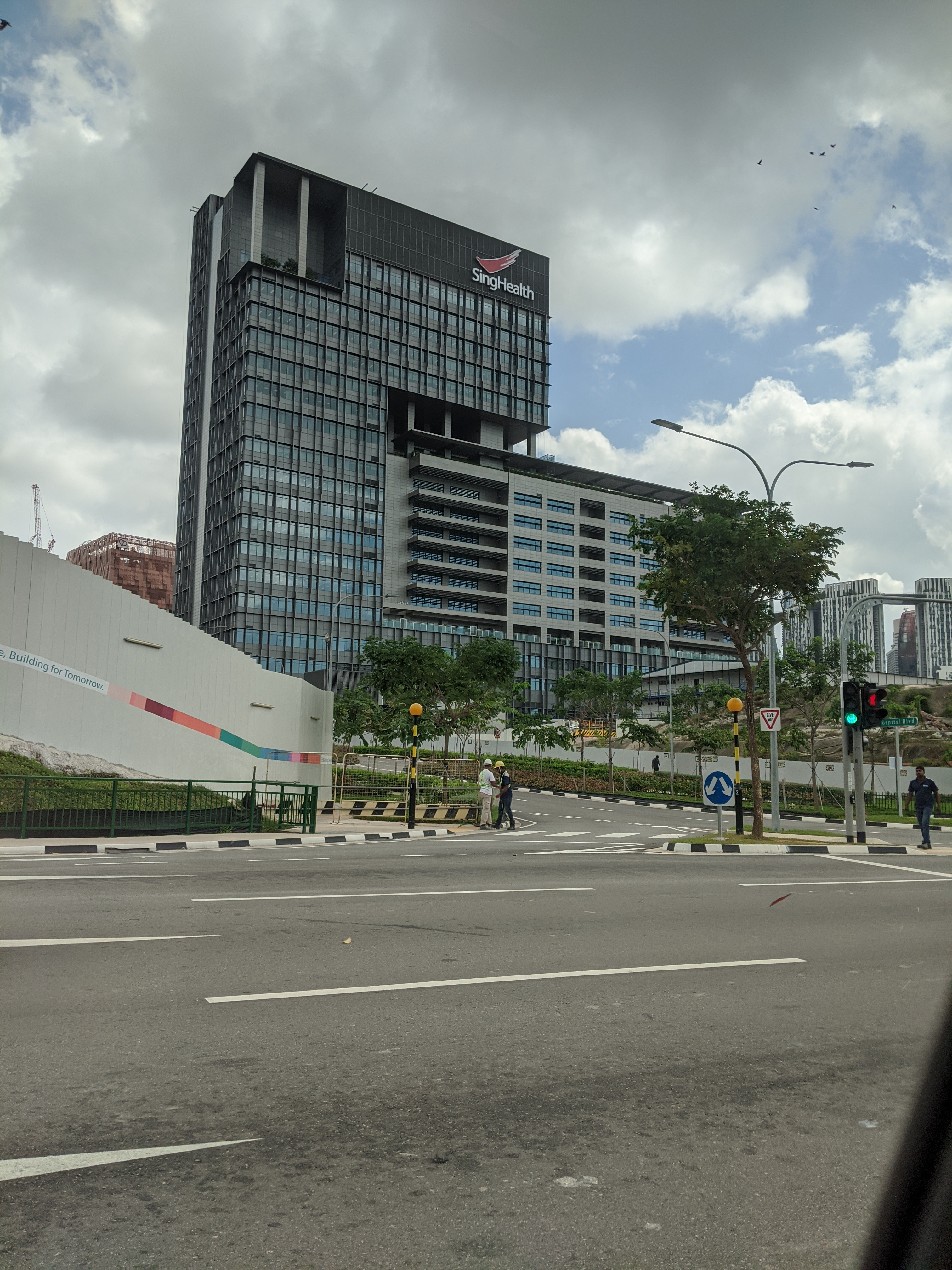 This is the Outram Community Hospital, a facility part of the Singapore General Hospital campus.